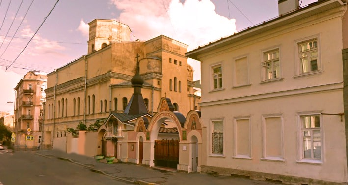 Modern sight to Mount Athos St. Andrew monastery branch at Saint-Petersburg